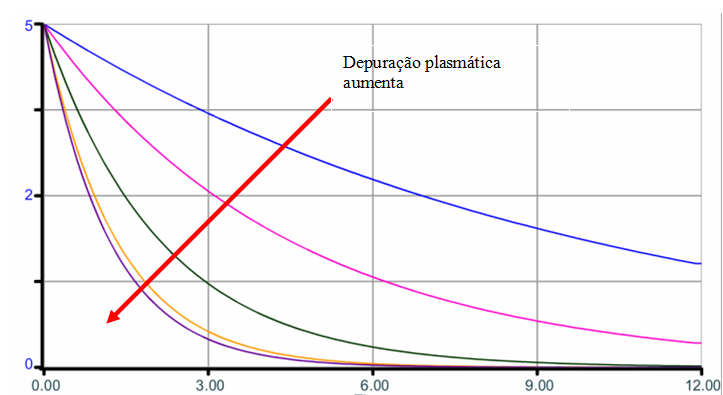 Clearance being simulated in a one-compartment model